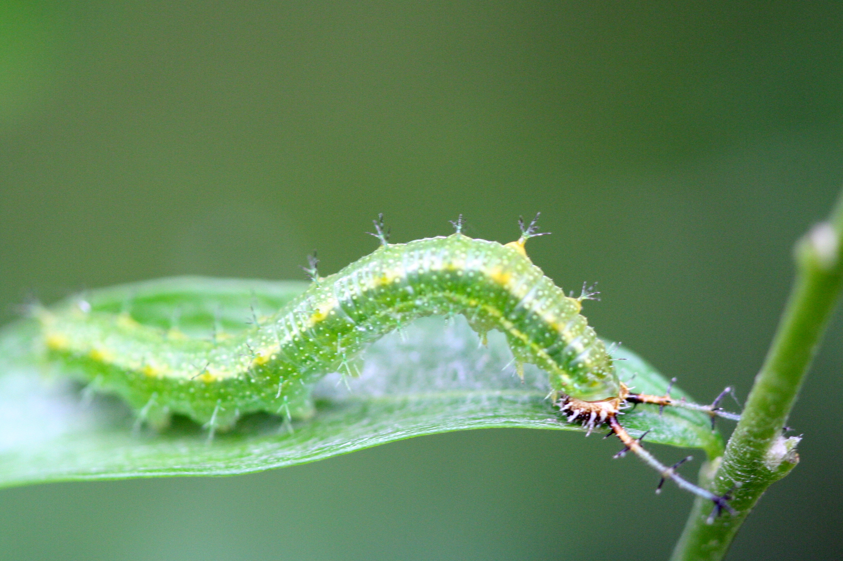 Mexican bluewing (Myscelia ethusa) caterpillar on Adelia vaseyi leaf.